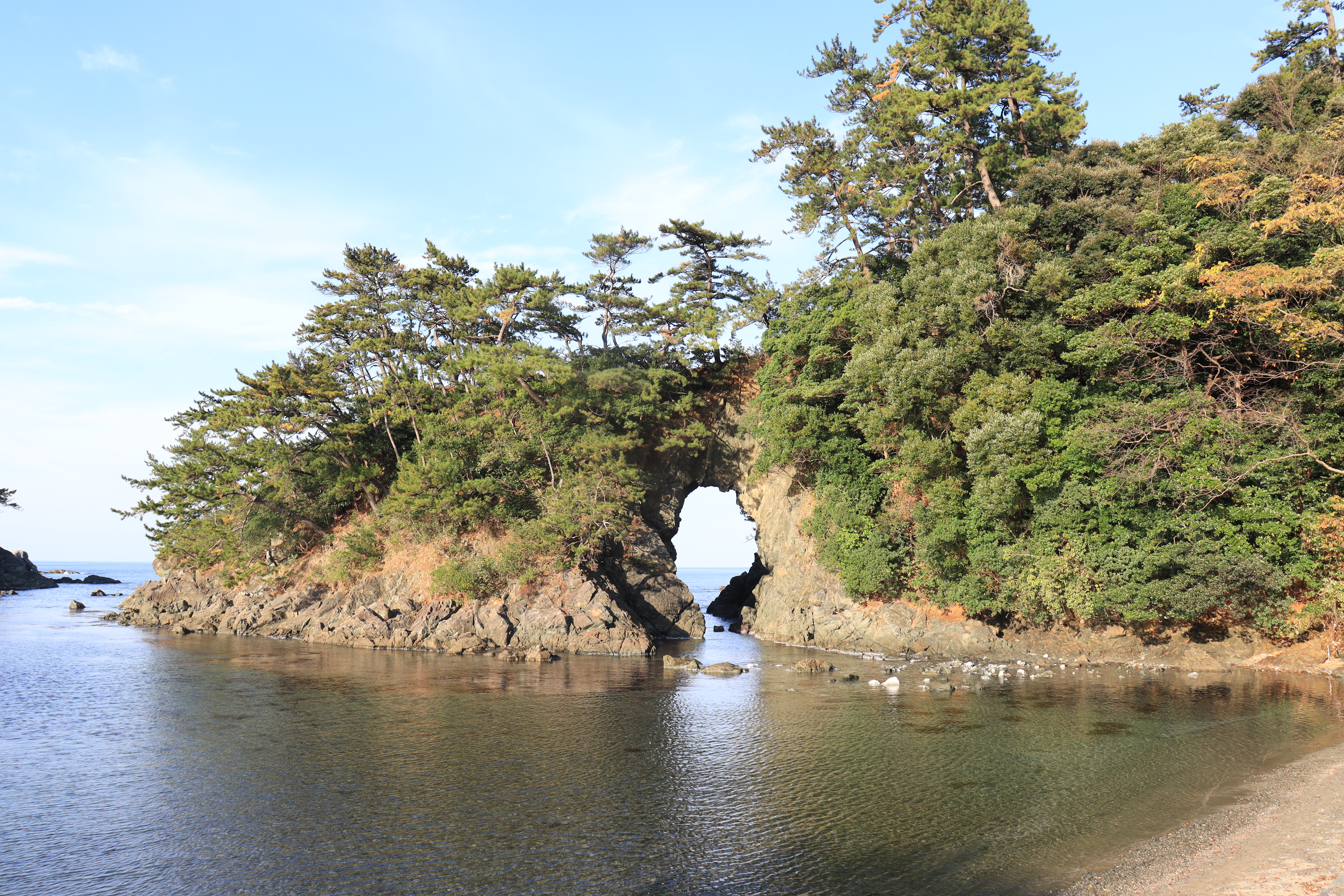 Meikyodo seen from Shiroyama Park in Takahama, Fukui Prefecture, Japan.